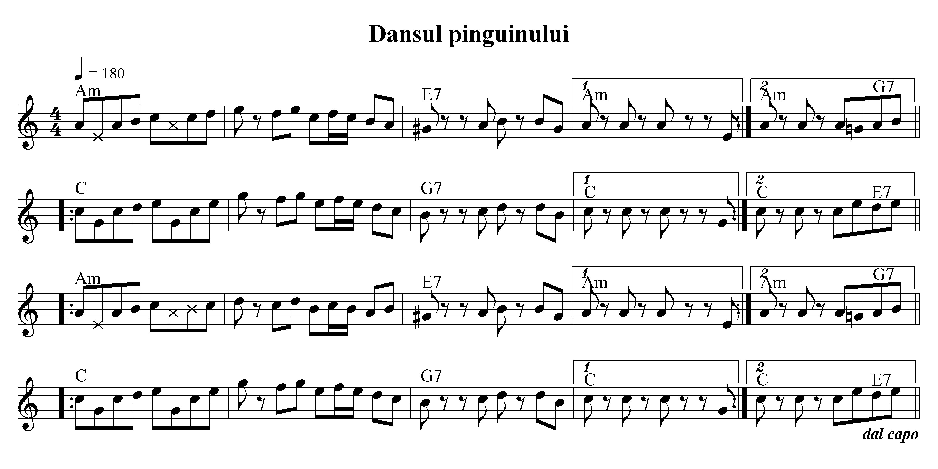 Sheet music from Romanian urban folk song "Dansul pinguinului" (Romanian: "Penguin dance"). The cross-headed notes may vary in pitch.